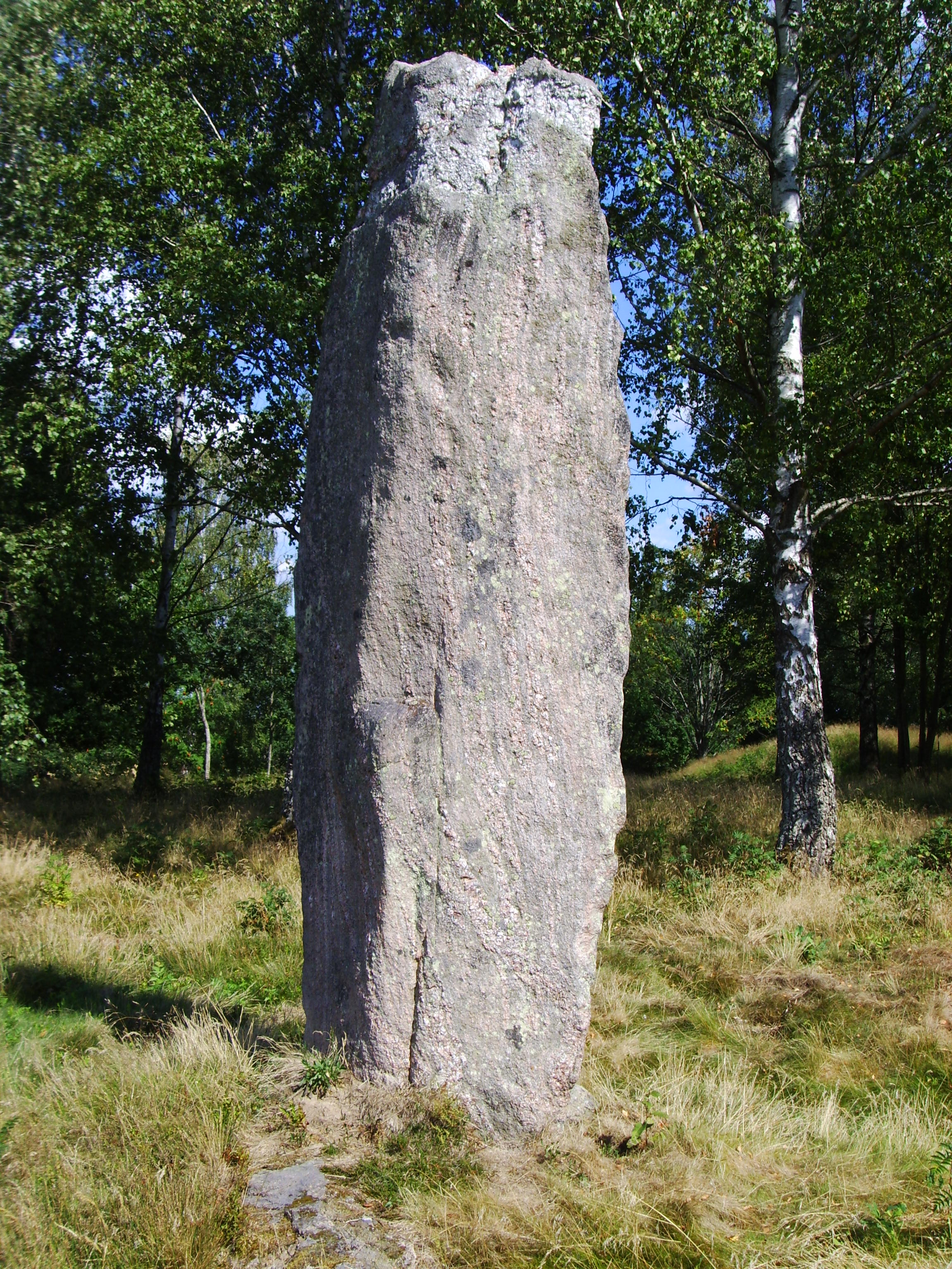 This grave-field ("Nycklabacken") contains about 200 ancient monuments. Here are 18 barrows, 149 round and one triangular stone-setting, 2 triangular graves with curved sides, and about 30 uprights stones. The field was mentioned in a travel book as early as 1791. In 1875 and in the 1950´s, nine graves were excavated in the southwestern part of the field. Along with burnt bones, there were some pottery sherds. In one grave there was also a bronze ring and in the another a piece of flint. The excavation proved that the dead had been cremated before burial. The finds date the field to latter part of the Iron Age. It served as a burial ground of a neighbouring farm.